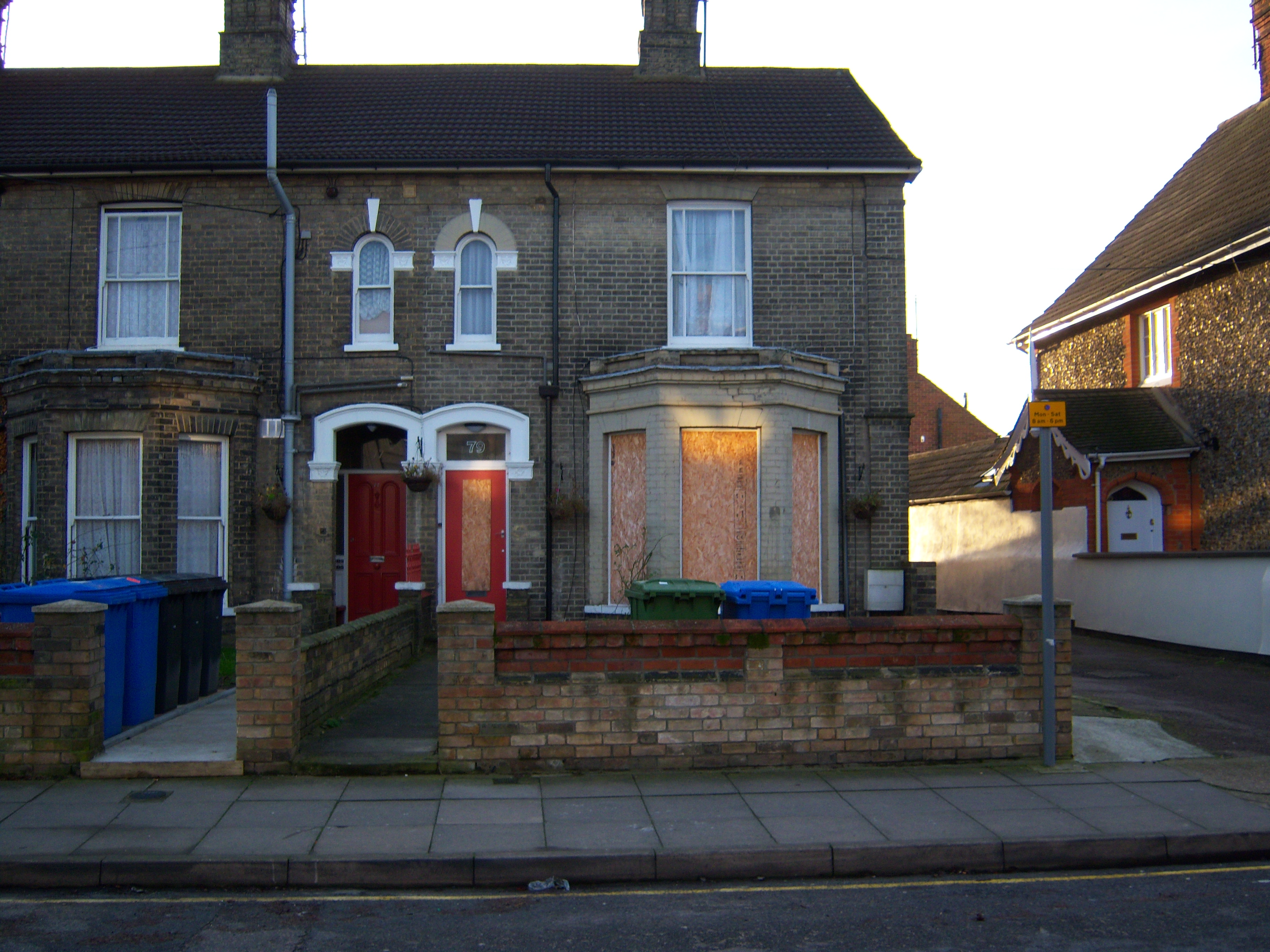 Steve Wrights house, which has been boarded up since his arrest in 2006.